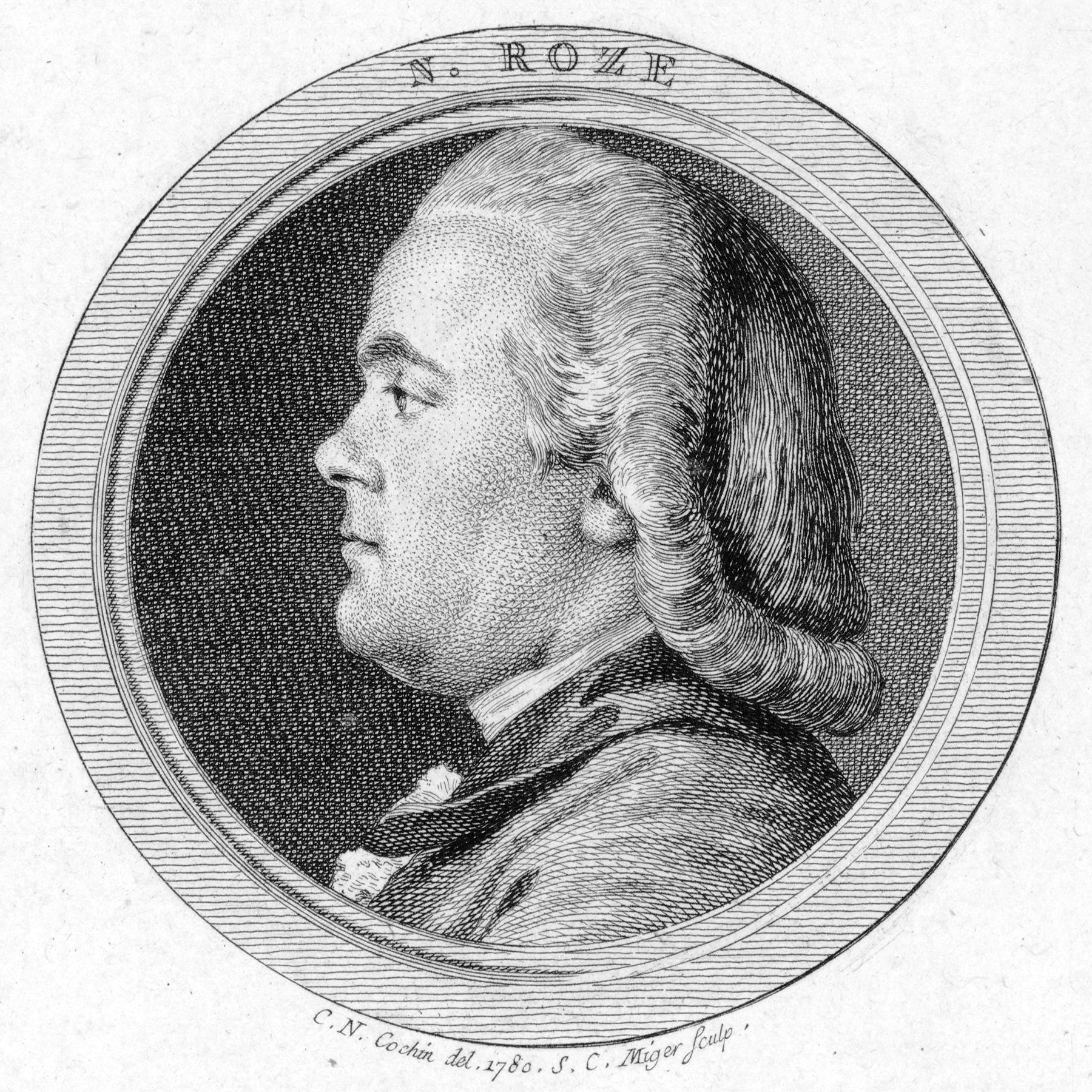 Depicted person: Nicolas Roze